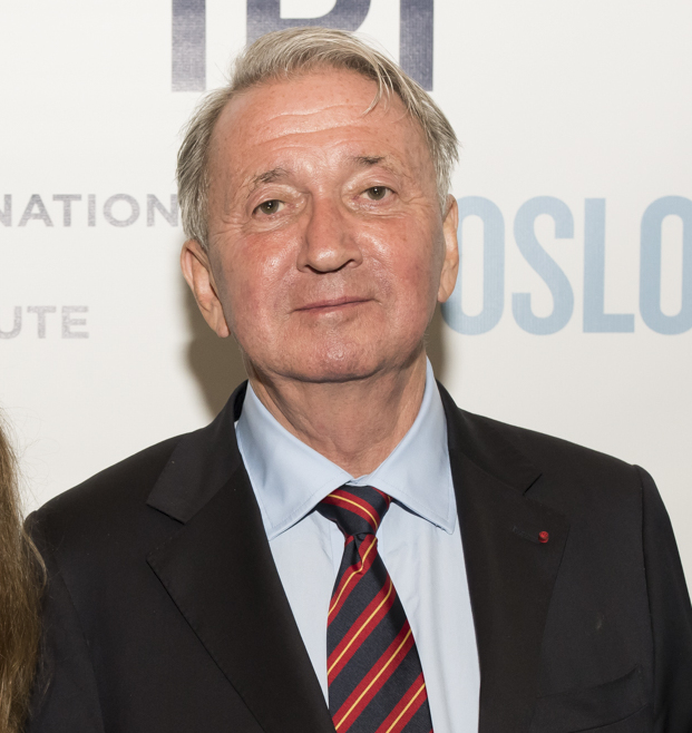 IPI President and actress Lee Grant at a special performance of "OSLO." Photo credit: International Peace Institute.